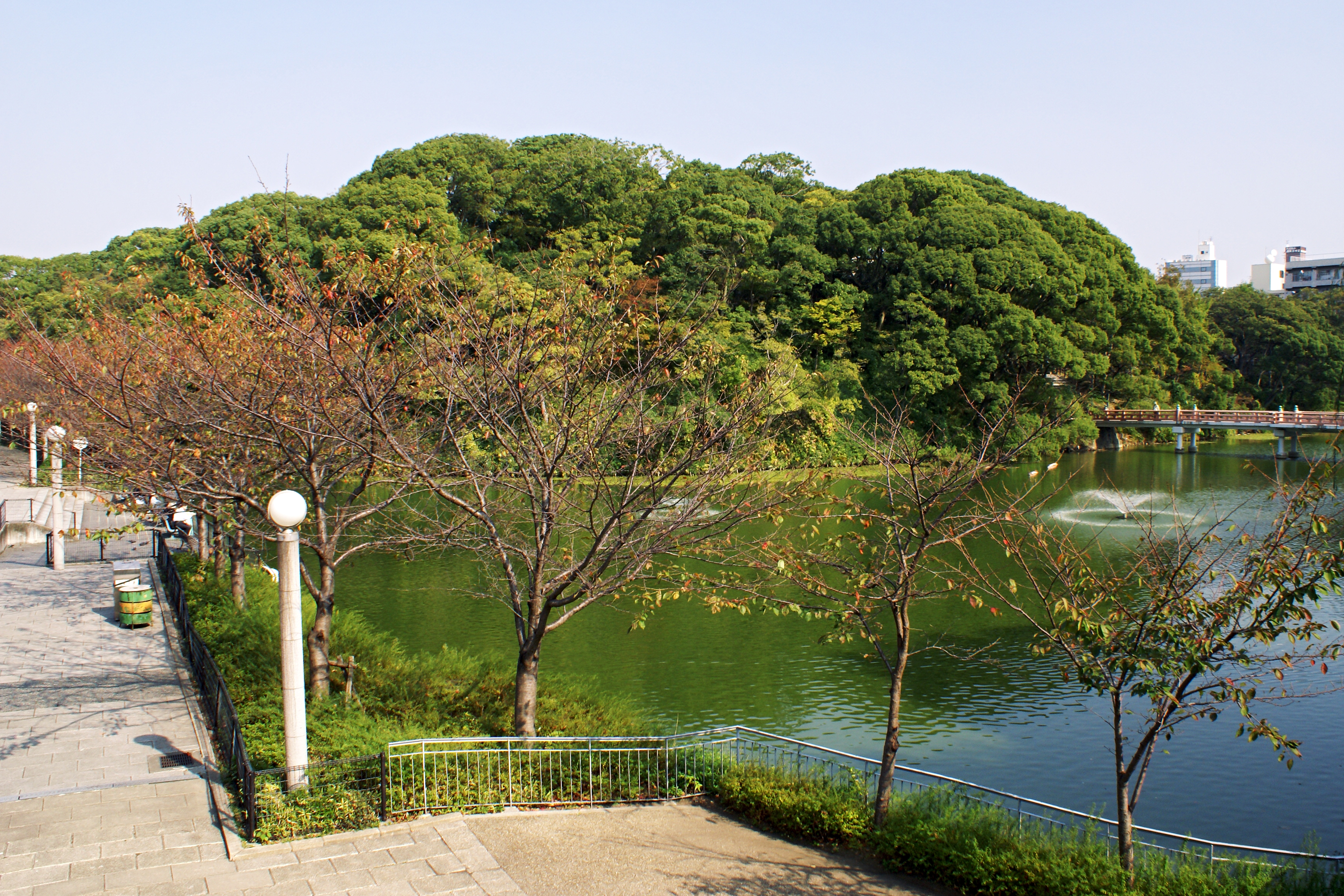 Chausuyama kofun in Osaka, Osaka prefecture, Japan